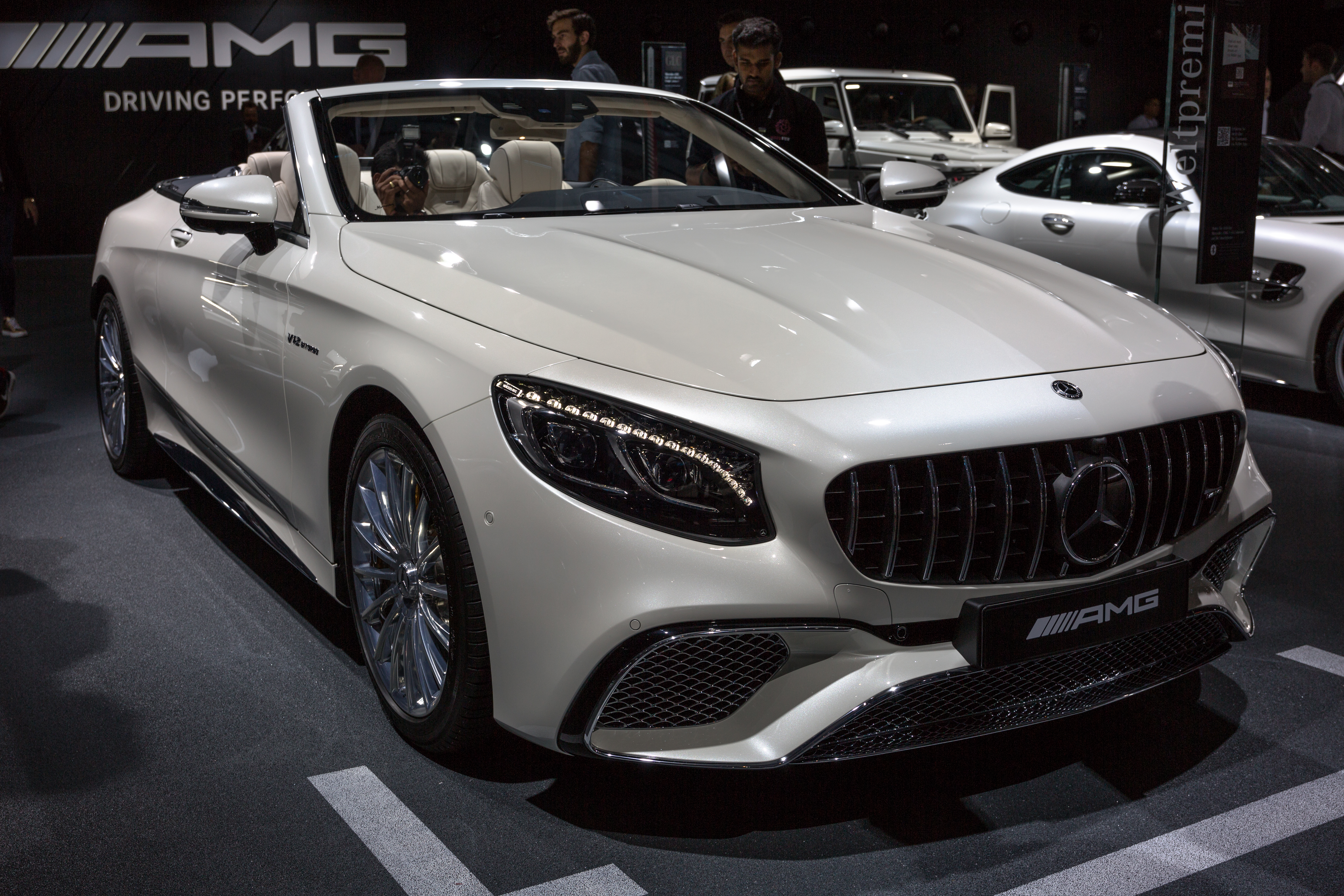 Mercedes-AMG S 65 , IAA 2017